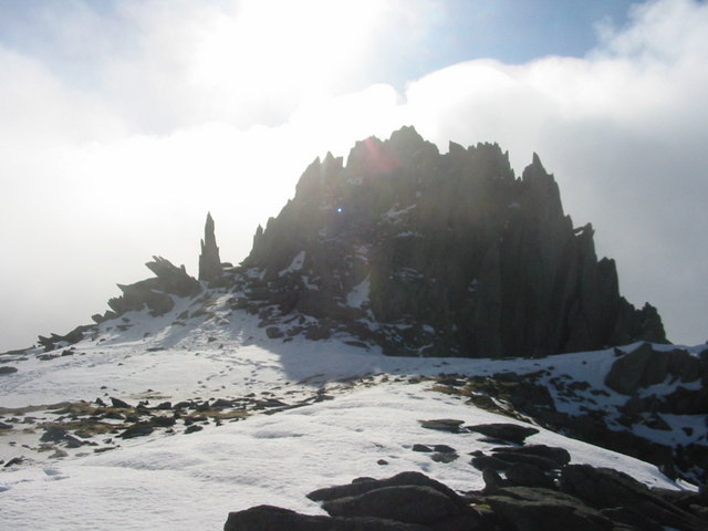 Winter Castell y Gwynt Castell y Gwynt makes a pleasant scrambly interlude on the way from Glyder Fach to Glyder Fawr